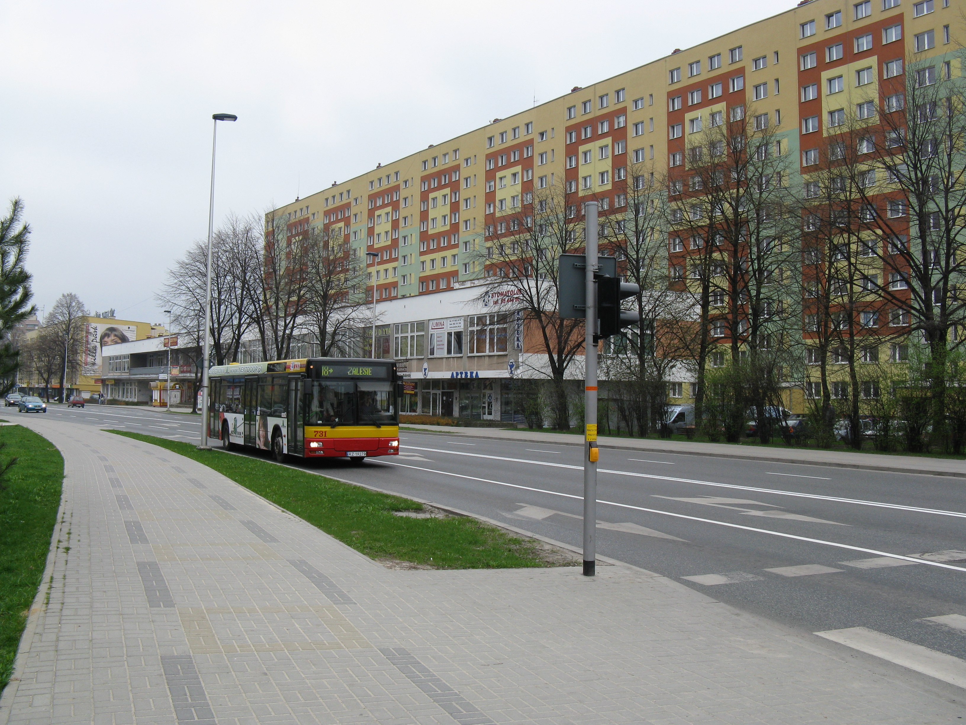 MAN NL 233 city bus (#731) in Rzeszów, Poland. Dąbrowskiego street. Built 2002, MPK Rzeszów operator.